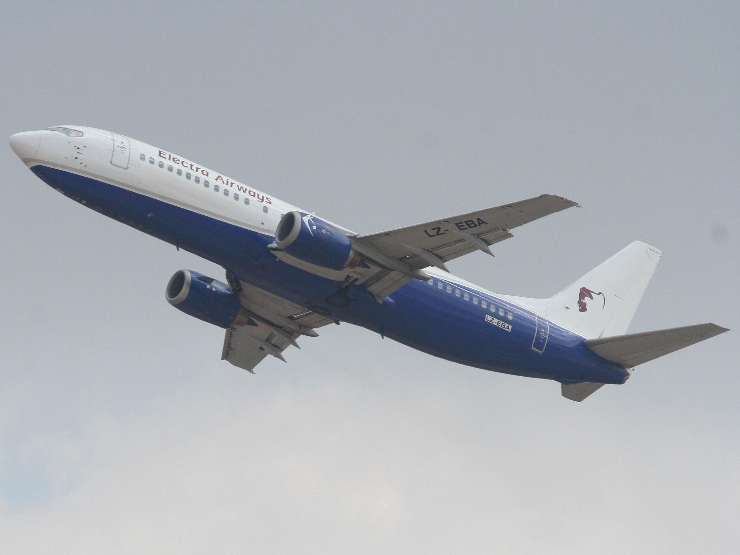 LZ-EBA on a hot Summer day at Ben Gurion International